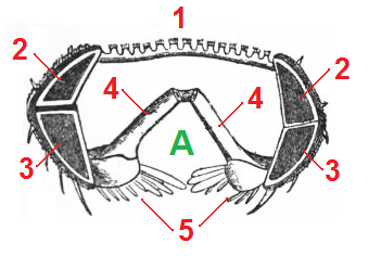 Section across the arm-skeleton of a Phanerozonate Asterid, Astropecten. 1, Dorsal plates with paxillae. Certain supra-ambulacral plates, which also exist, are not shown. 2 and 3, Inferior and superior lateral plates. 4, Ambulacral plates. 5, Adambulacral plates. tagged version of Britannica Echinoderma 16.jpg